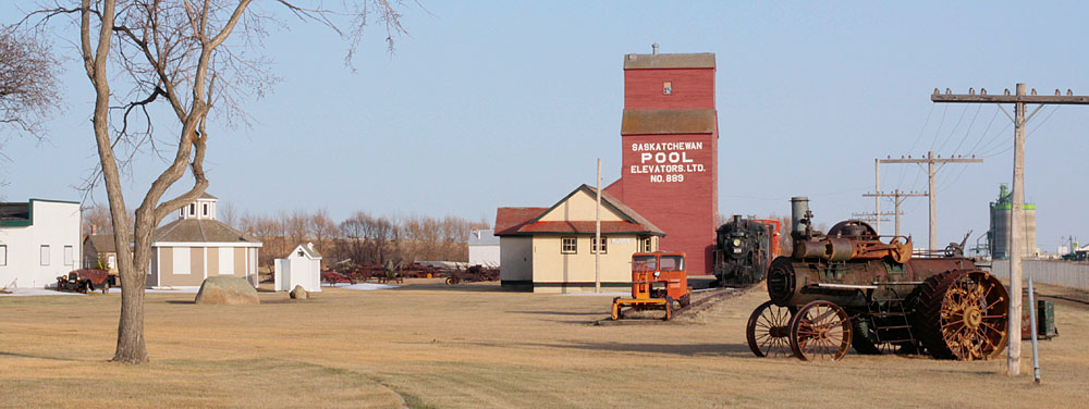 Grain elevator in North Battleford, Saskatchewan, Canada